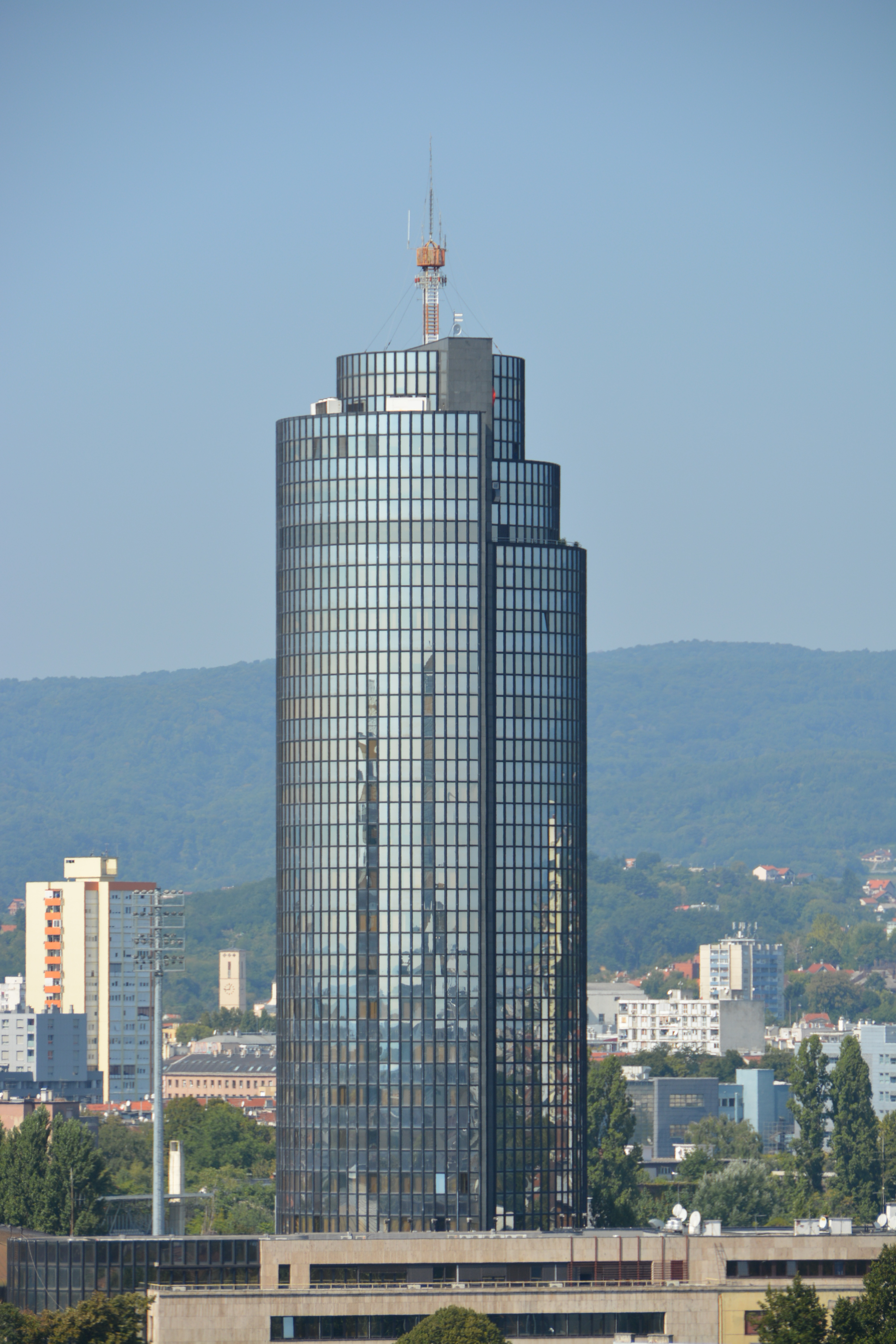 Cibona Tower seen from the southeast.